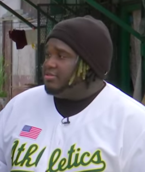 Panamanian singer Sech in March 2020